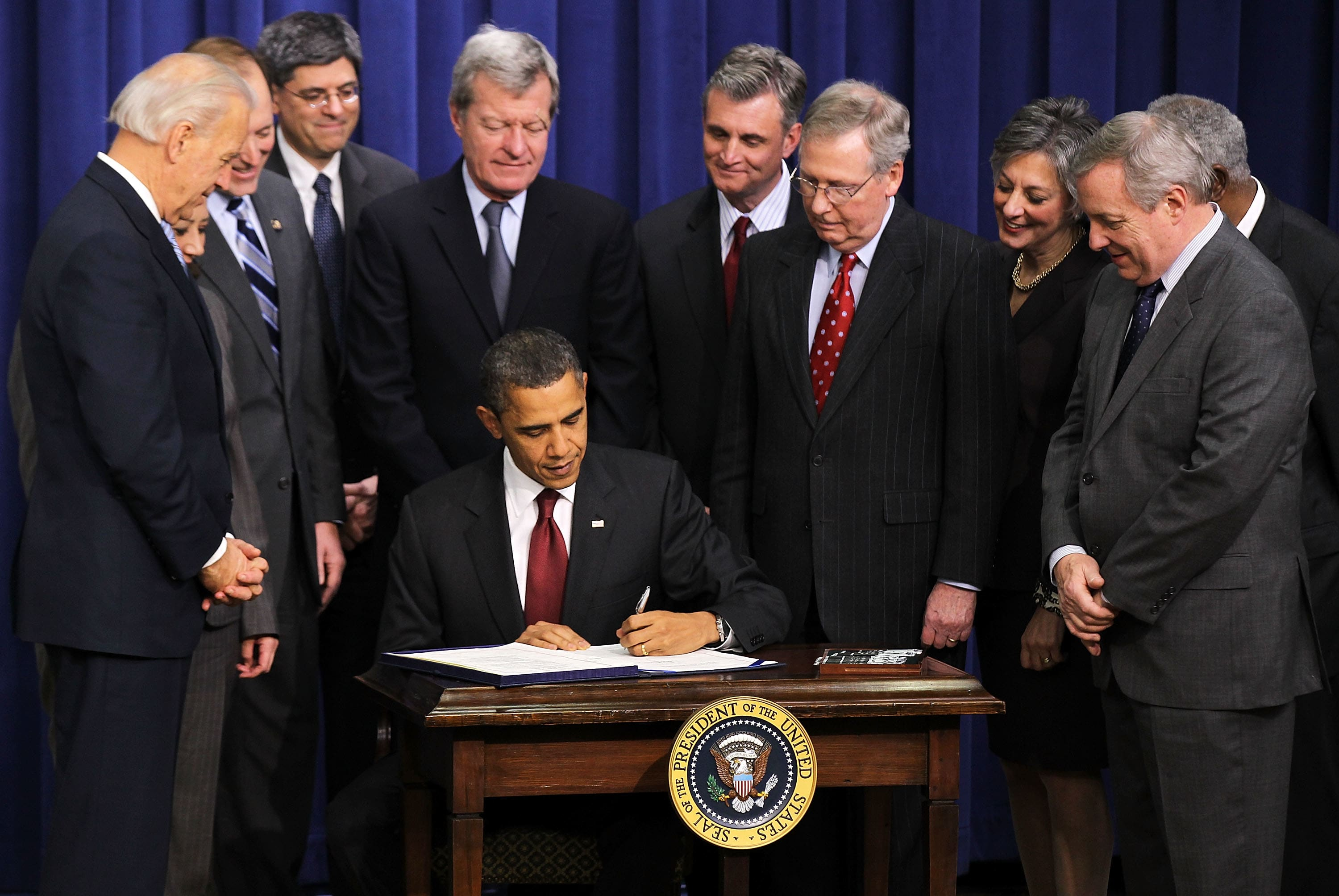 President Barack Obama signs the Tax Relief, Unemployment Insurance Reauthorization, and Job Creation Act of 2010 at the White House.